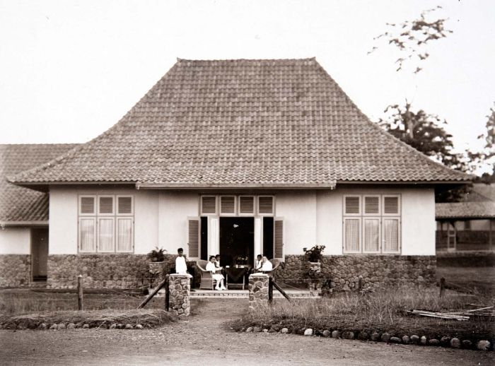 Nurses' residence at the Red Cross Hospital, Buitenzorg